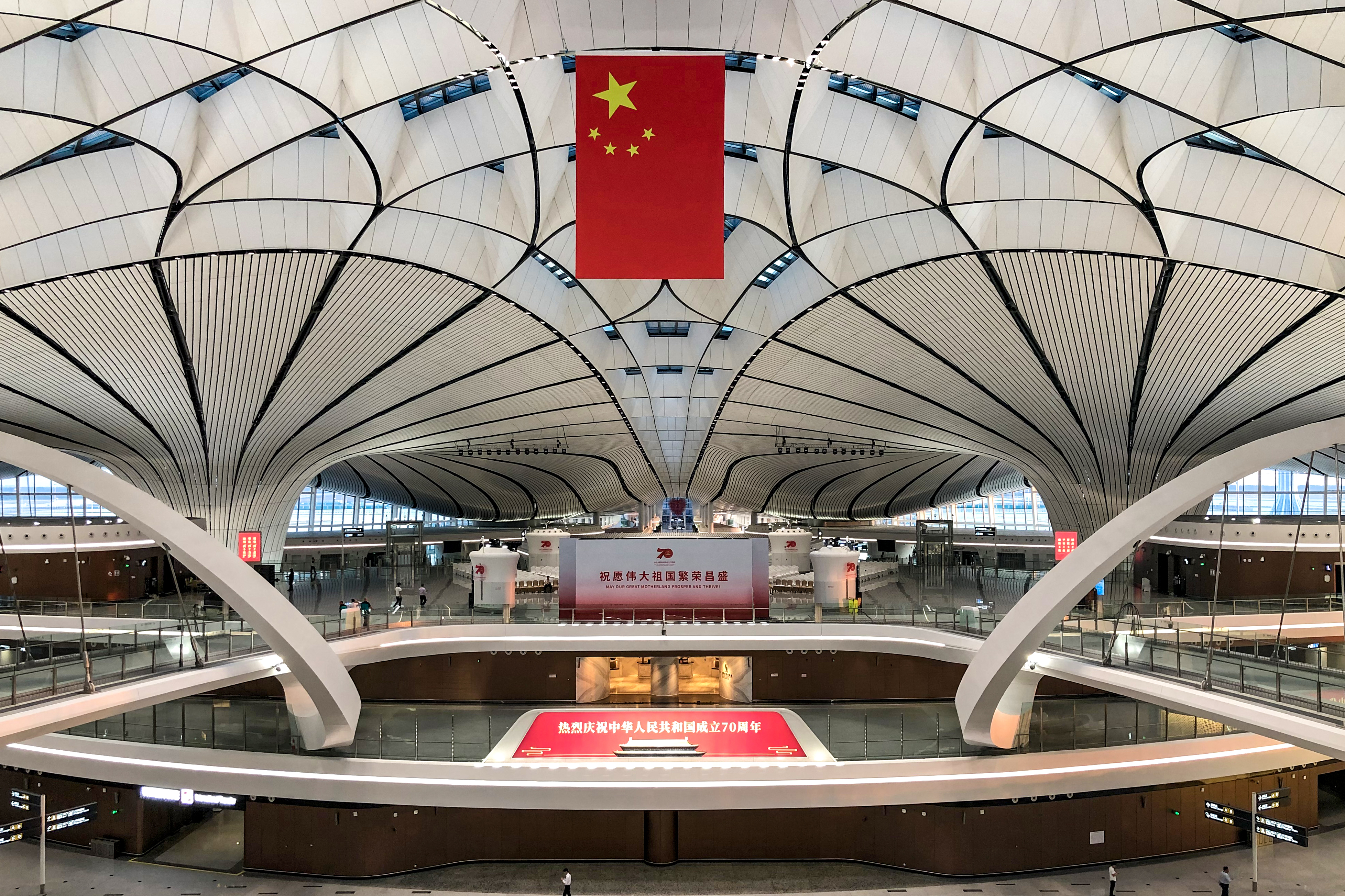 The space reserved for immigration inspection was the site of PKX's opening ceremony, where president Xi Jinping declared the airport open.